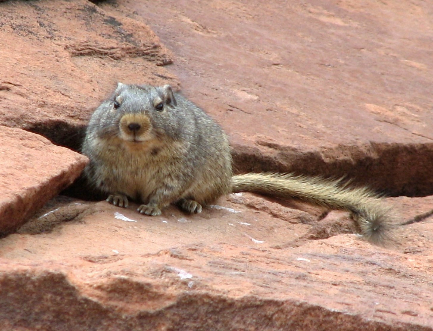 A Dassie rat at Twyfelfontein near Khorixas in the Kunene Region of Namibia Diné bizaad: Łéʼétsoh bitseetłʼooígíí